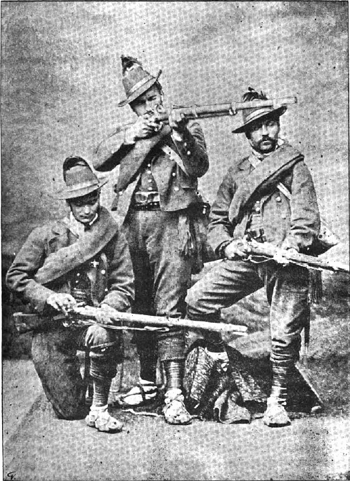 Papaline "squadriglieri" ready to fight against briganti